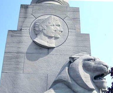 The Queen Elizabeth Way Monument, near Toronto, with the effigies of Queen Elizabeth and King George VI